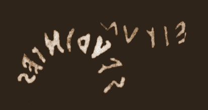 elba island